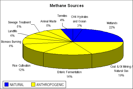 Natural and Anthropogenic Methane Sources